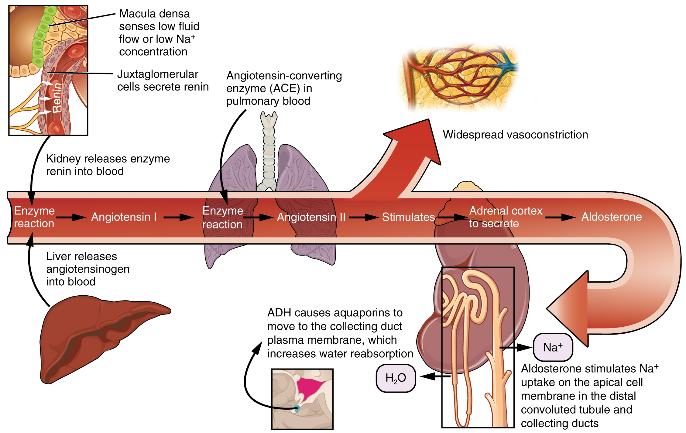 Illustration from Anatomy & Physiology, Connexions Web site. Jun 19, 2013.